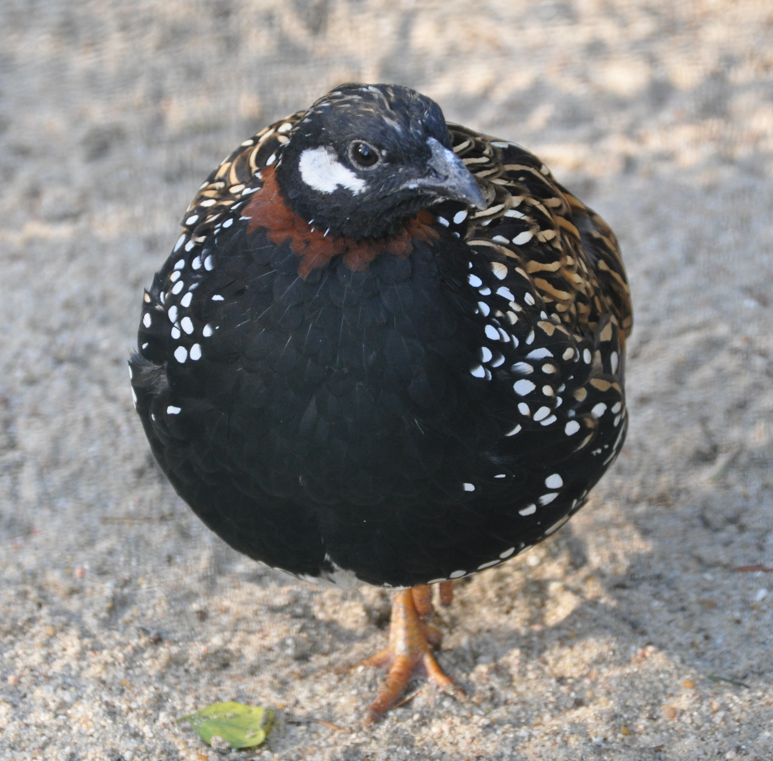 Black Francolin (Francolinus francolinus) in the Walsrode Bird Park, Germany.